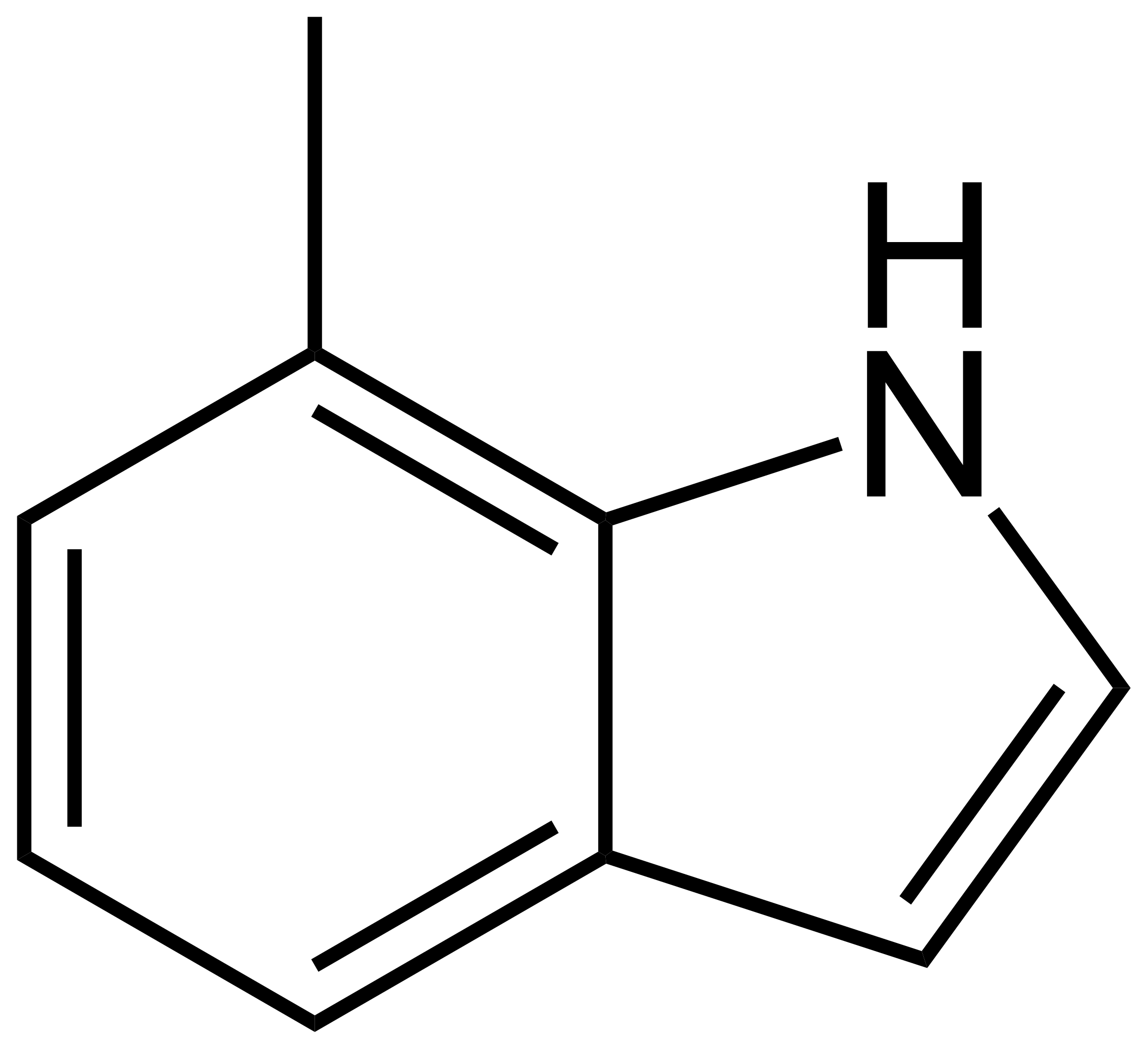 Chemical structure of 7-methylindole